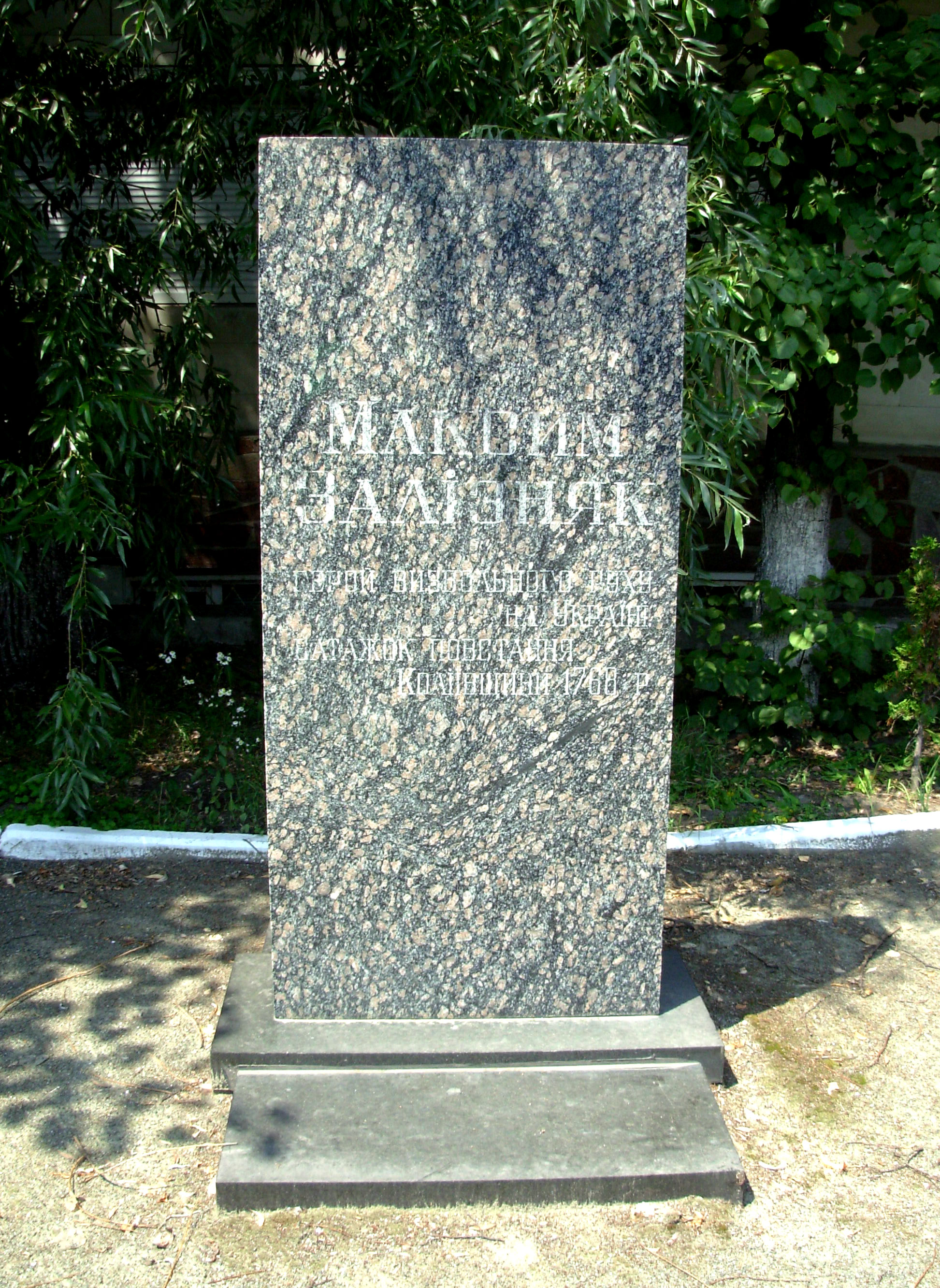 Maksym Zalizniak Monument in Sviatoshyn Raion, Kyiv, Ukraine